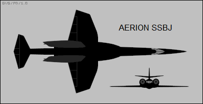 Two-view silhouette of the Aerion SBJ concept